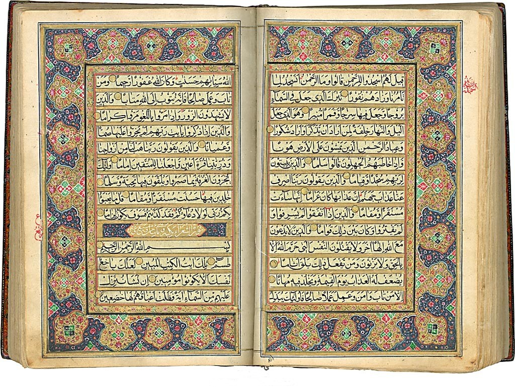 ManuScript in Arabic on polished paper, Kashmir,18th c., 339 ff., 22x14 cm, single column, (15x9 cm), 14 lines in Naskh book script, within a thick frame of gold, orange, green and blue, the lines separated by a thick gold line, verses separated by gold dots, each sura introduced with a panel of gold and blue with script in white, 9 double openings with full borders with extensive and rich foliage and floral designs in gold and colours by a highly skilled artist. Binding: Kashmir, 18th c., lacquered boards with extensive foliage and floral designs in gold and colours in the style of Kashmir carpets, on both sides of the boards, later red leather spine, sewing covered. Provenance: 1. Private collection, London (1980'ies-2000).